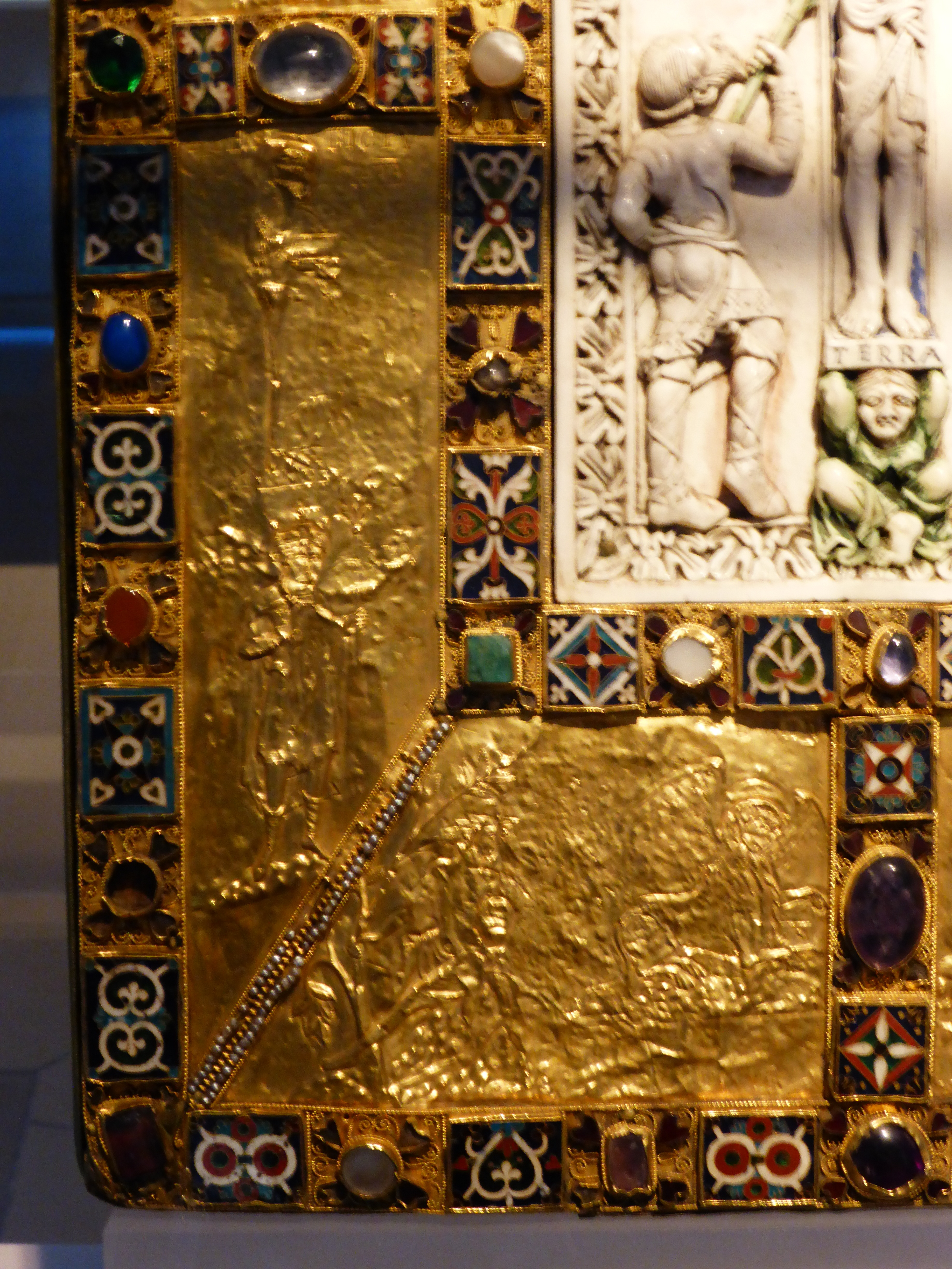 Germany, Bayern, Nuremberg